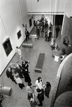 Interior, Blaffer Gallery. The Sarah Campbell Blaffer Gallery was dedicated on March 13, 1973 and is located inside the University's Fine Arts Building. The Blaffer Gallery holds the Blaffer Collection of the University of Houston as well as many temporary and traveling exhibits.